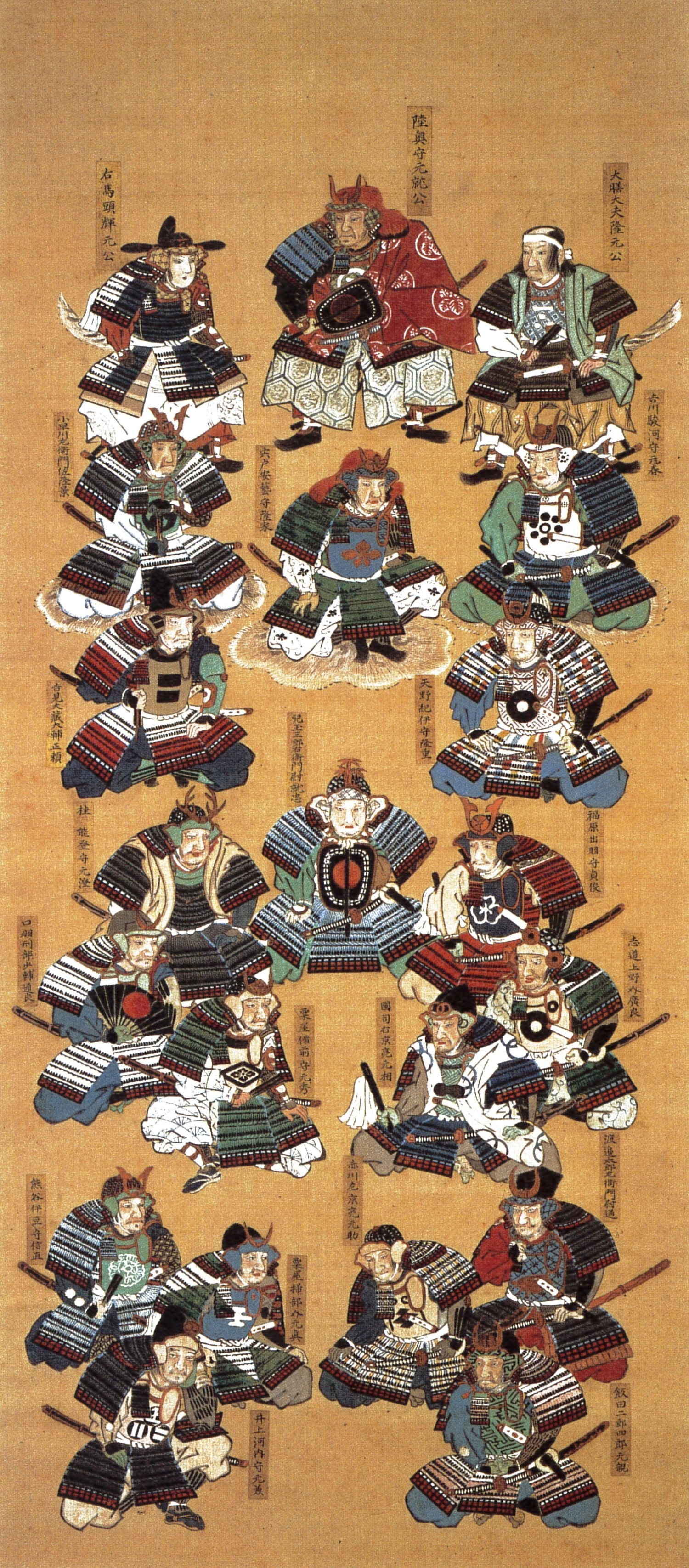 Mohri Motonari seated with Mohri clan family and senior vassals.